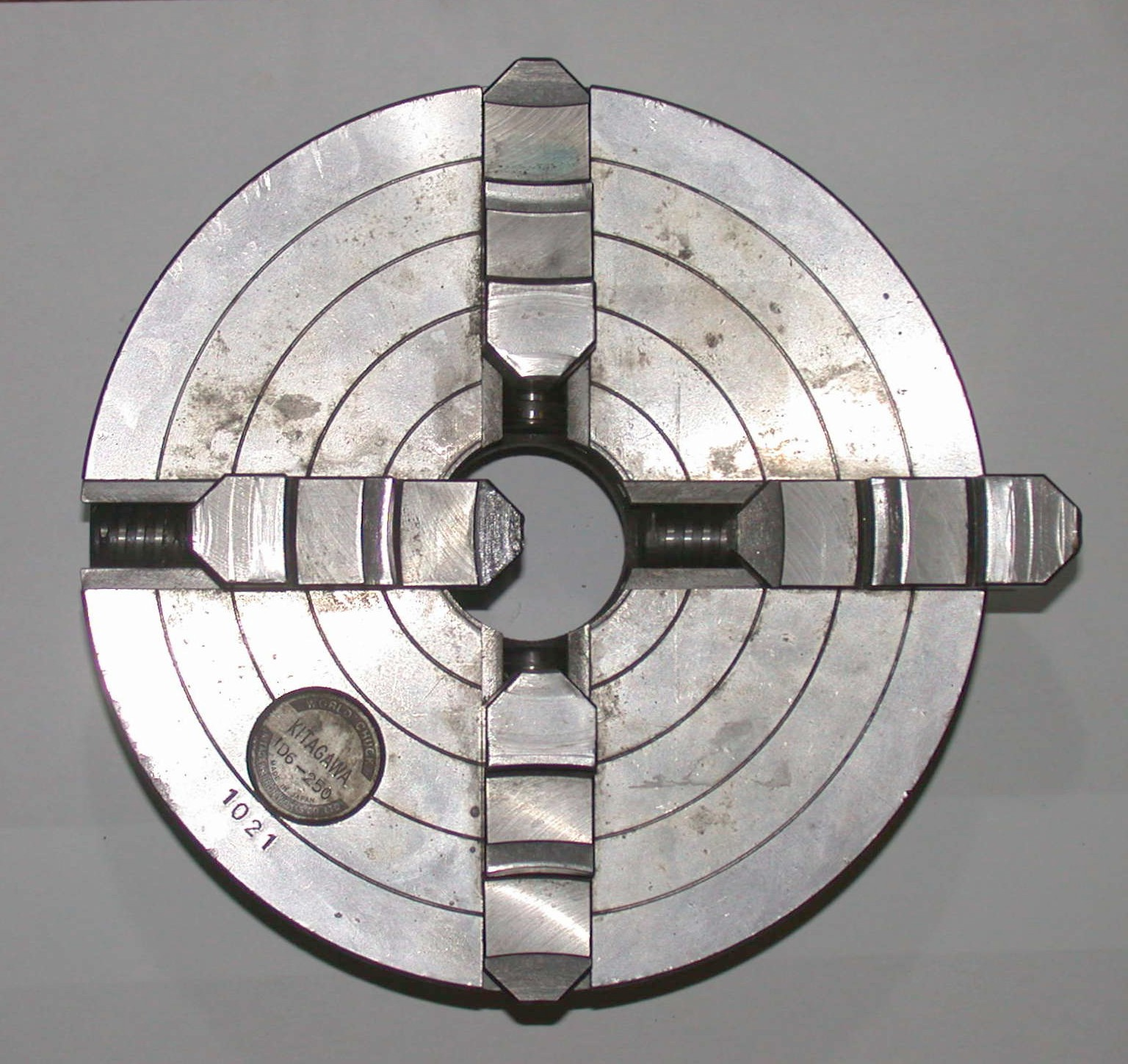 Independent four jaw chuck. The jaws are offset to show the independent nature of the chuck jaw positioning. They are used for irregular shapes or rough finishes (such as castings).